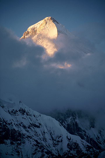 A scan from a 35mm transparency which I took in Kyrgyzstan in July 2002. The mountain Khan Tengri (6995m) is a notable peak in the Tien Shan mountain range, on the Kyrgyz border with Kazakhstan and close to their joint border with China. The photo was taken from the Inylchek base camp on the South Inylchek glacier. This scan is in the Public Domain (however, I retain ownership and copyright of the original transparency and any higher-resolution scans derived from it). If the image is used ouside Wikipedia, a photographer's credit (Simon Garbutt) would be appreciated. SiGarb 23:33, 20 November 2005 (UTC)